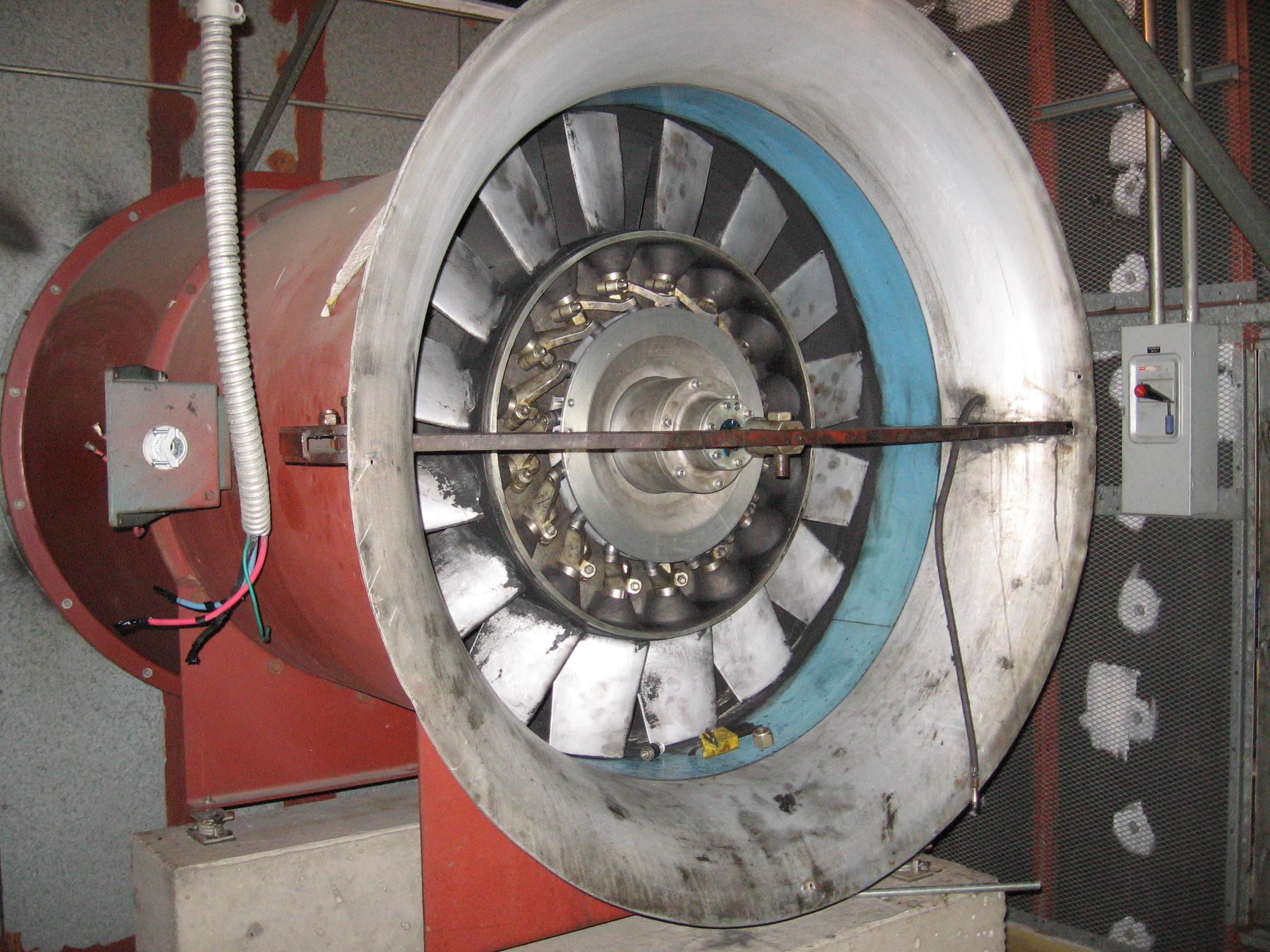 Joy Axial Fan This is a 75 horse power cold deck supply fan.